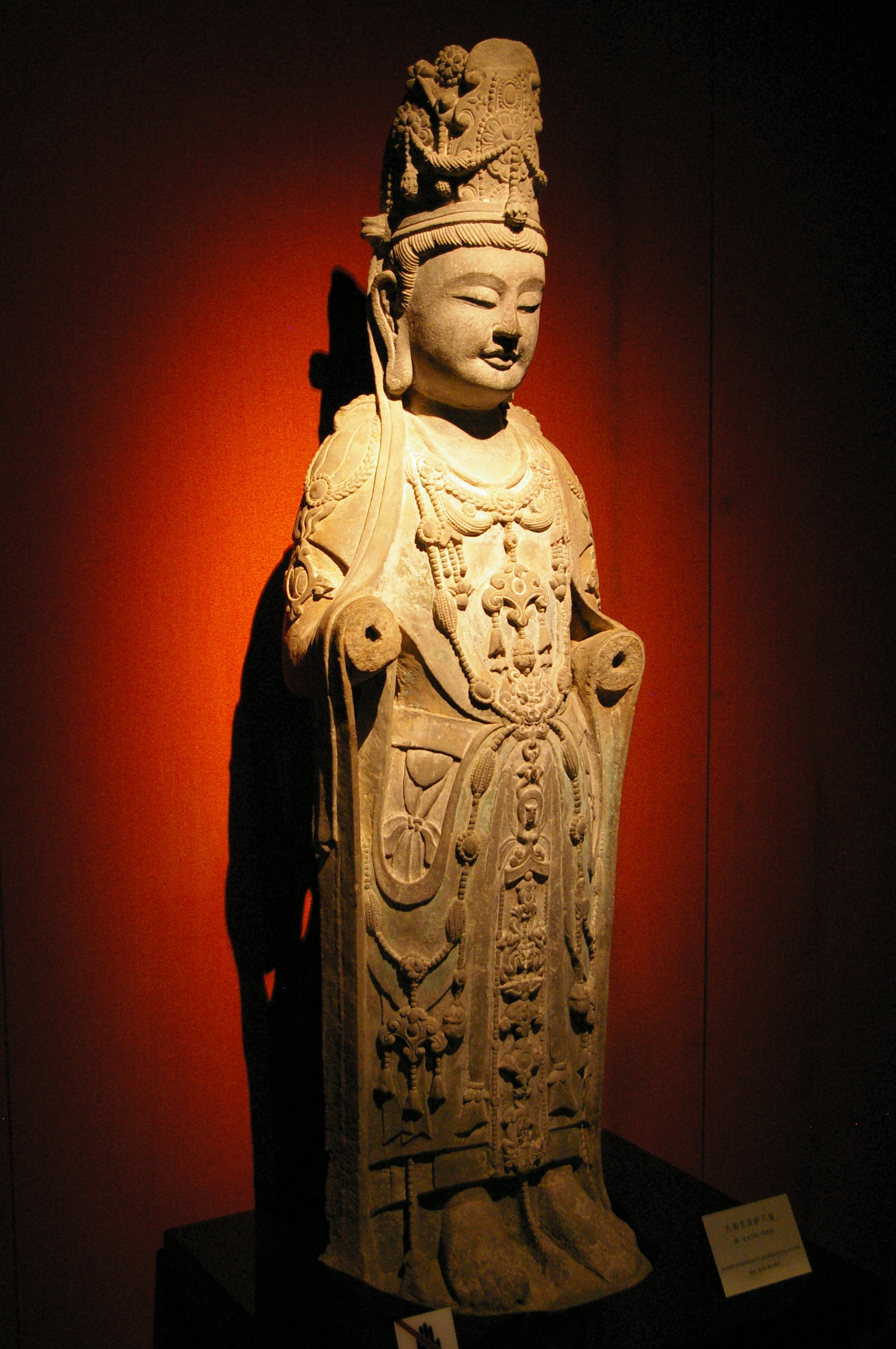 Buddhist sculpture in Shanghai Museum